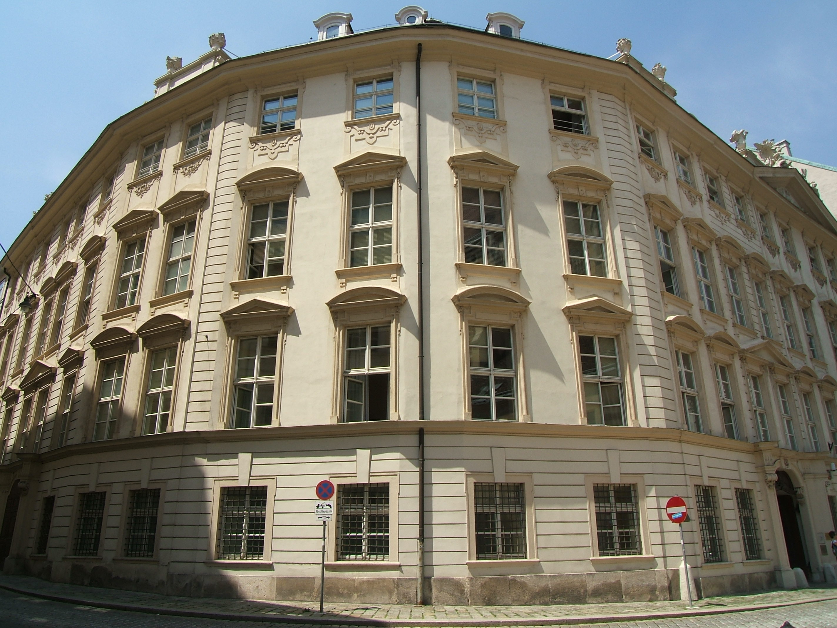 Palace Dietrichstein-Ulfeld in Vienna 1st district Minoritenplatz-Metastasiogasse